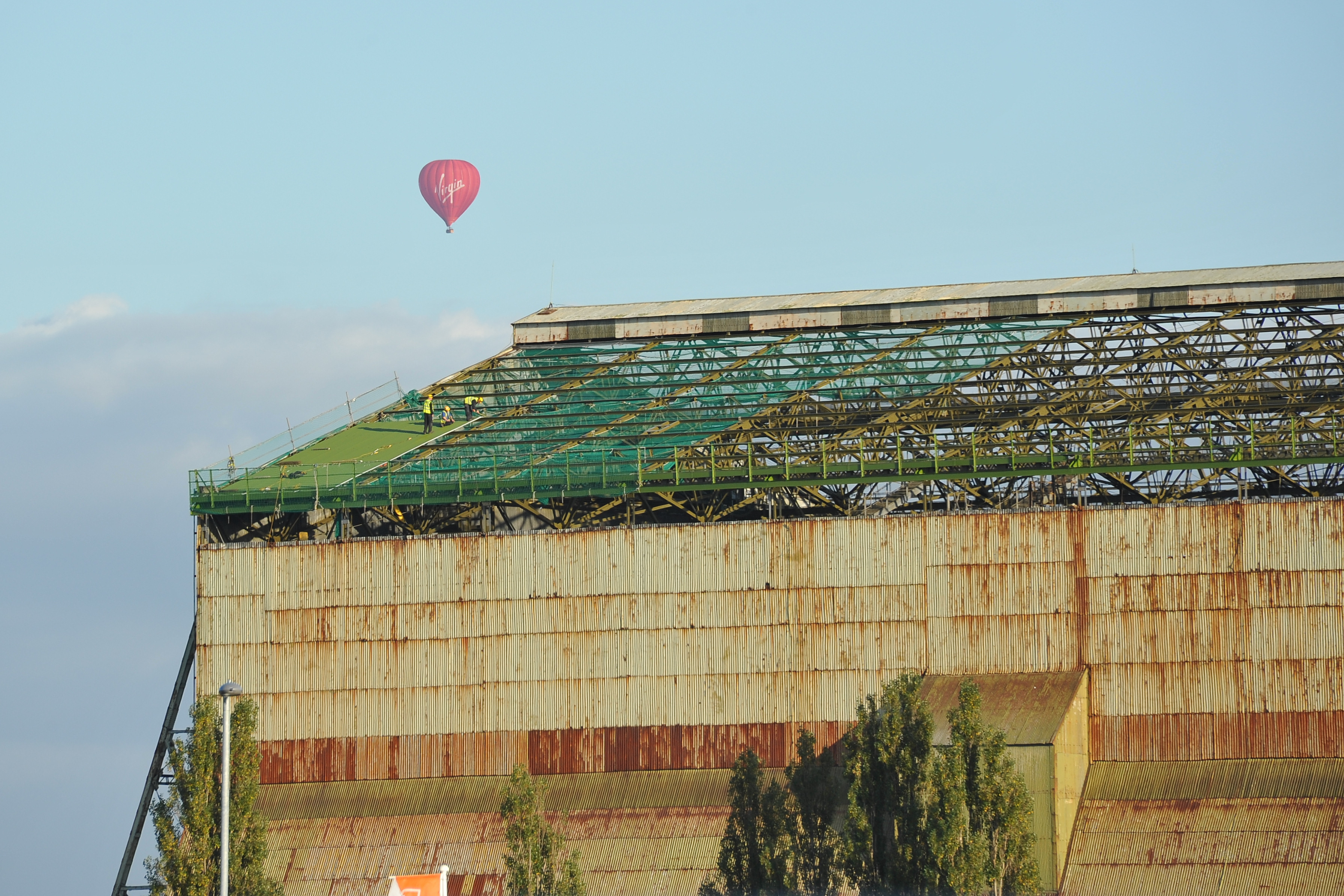 Roofing work on Cardington Airship Shed 1 in October 2012. The aged shed has been in need of repair for some years and, as of October 2012, appears to be receiving refurbishment treatment.